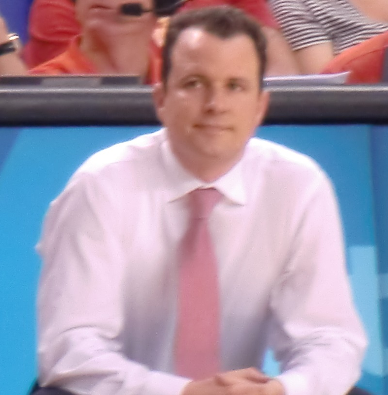 University of New Mexico men's basketball head coach Paul Weir on February 3, 2018 during a game at San Jose State.